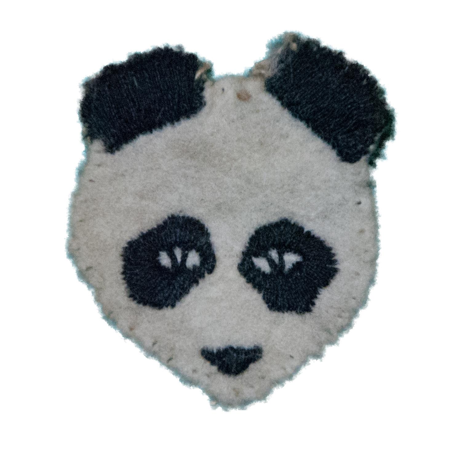 Formation sign of the 9th Armoured Division, a pun on the word 'panzer'